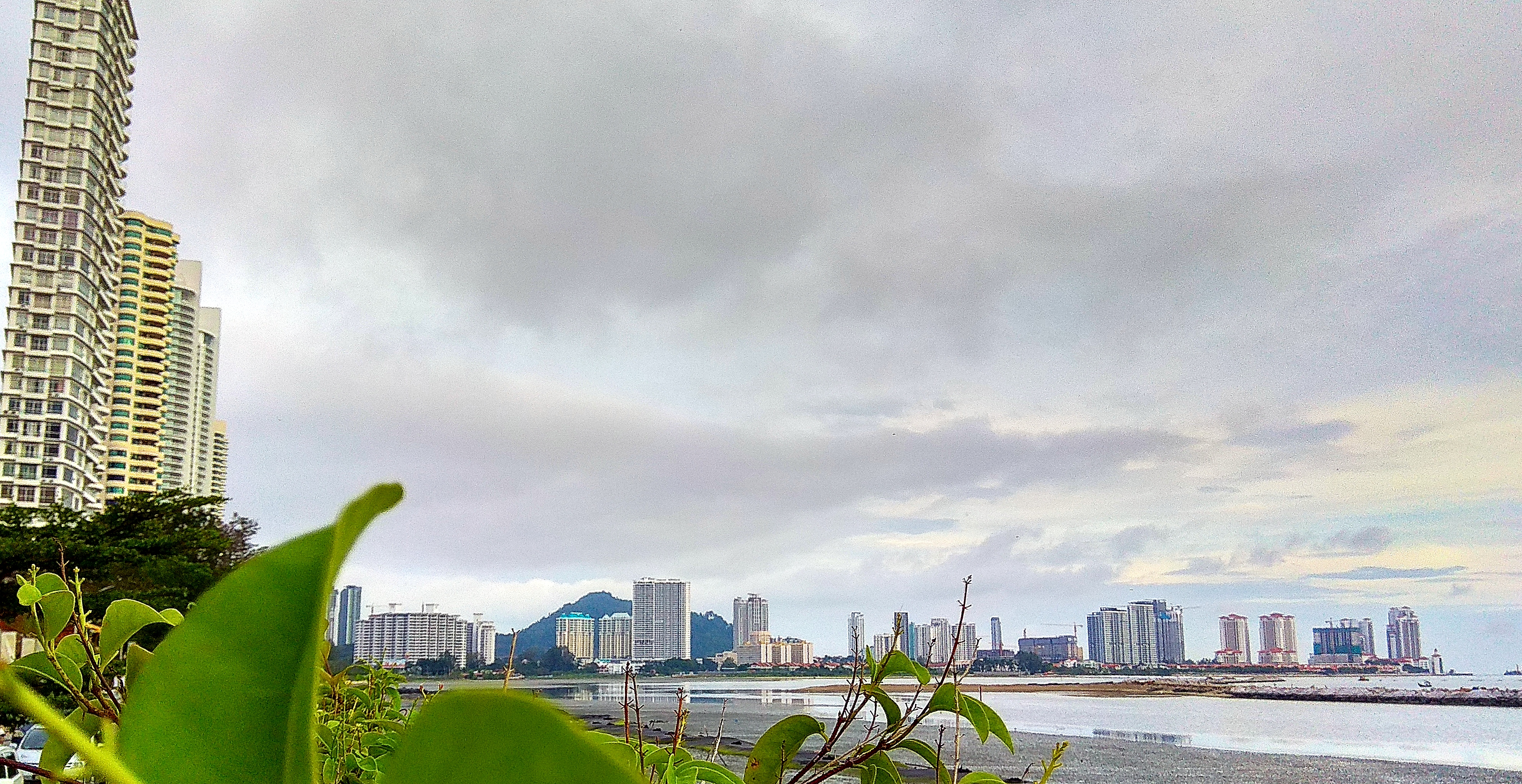 Skyline of Tanjung Tokong as seen from Gurney Drive in the city of George Town in Penang, Malaysia.